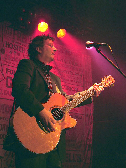 Glenn Tilbrook at the Picturedrome, Yorkshire on 19 May 2007.